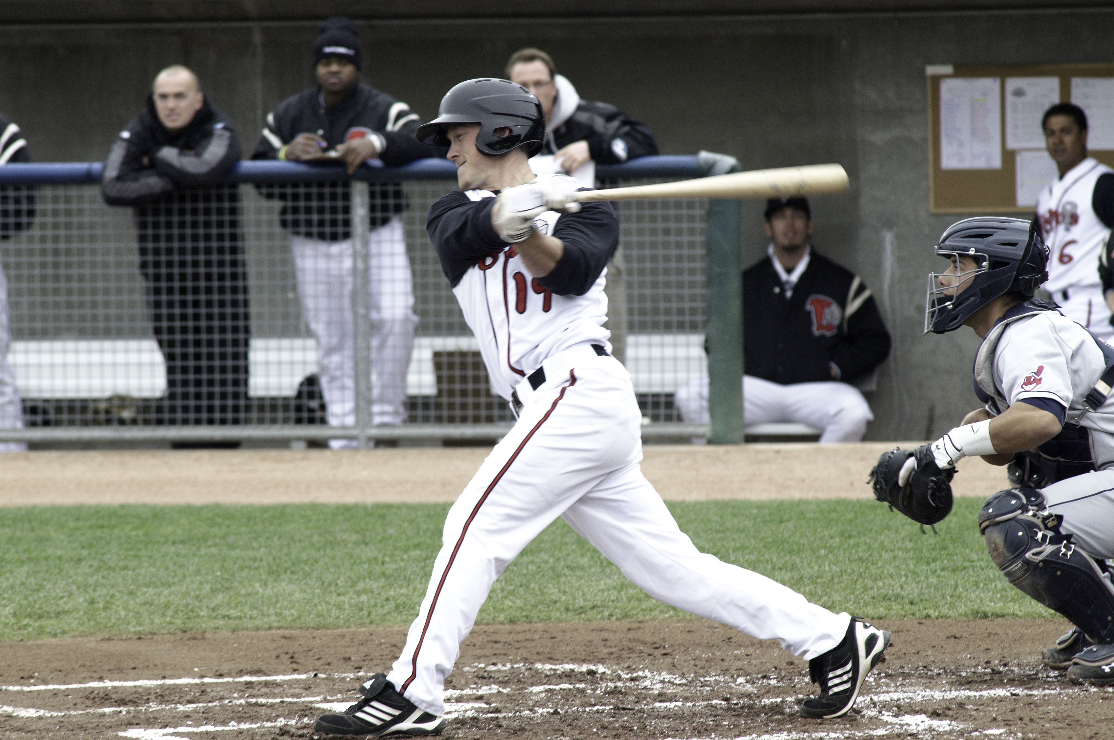 Lake County @ Lansing 05032011